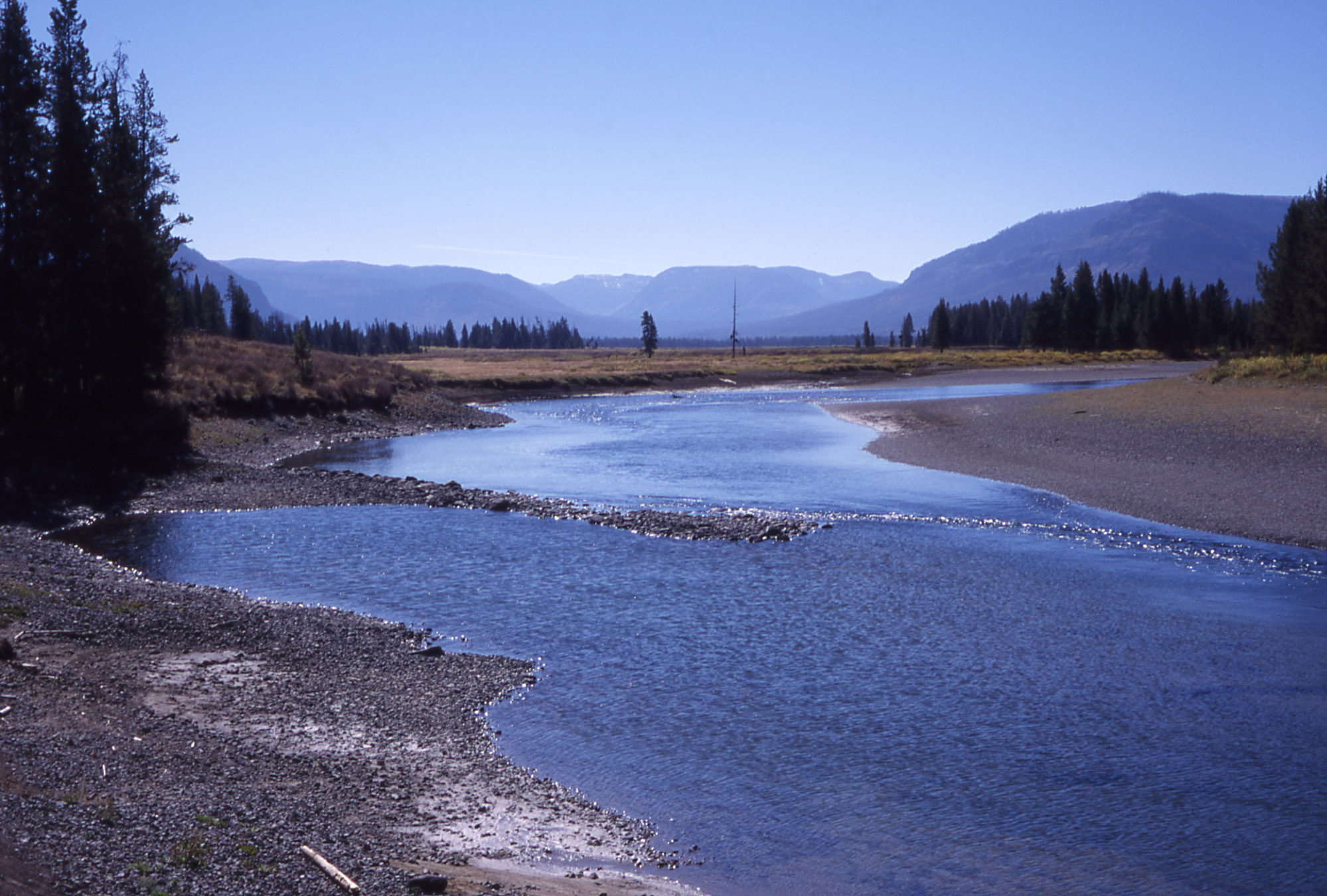 Upper Yellowstone River near Thorofare Creek (2000)